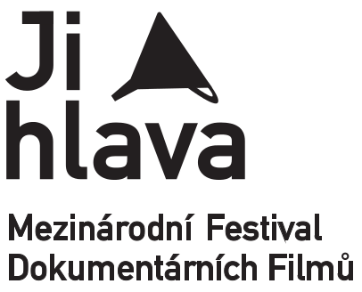 Jihlava IDFF Logo